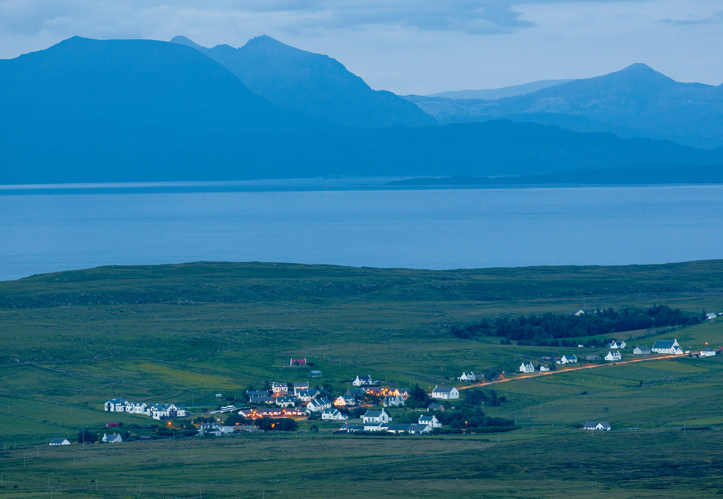 The village of Staffin on the Isle of Skye in Scotland, viewed from the Quiraing ridge at dusk. In the background are the highlands of the mainland.